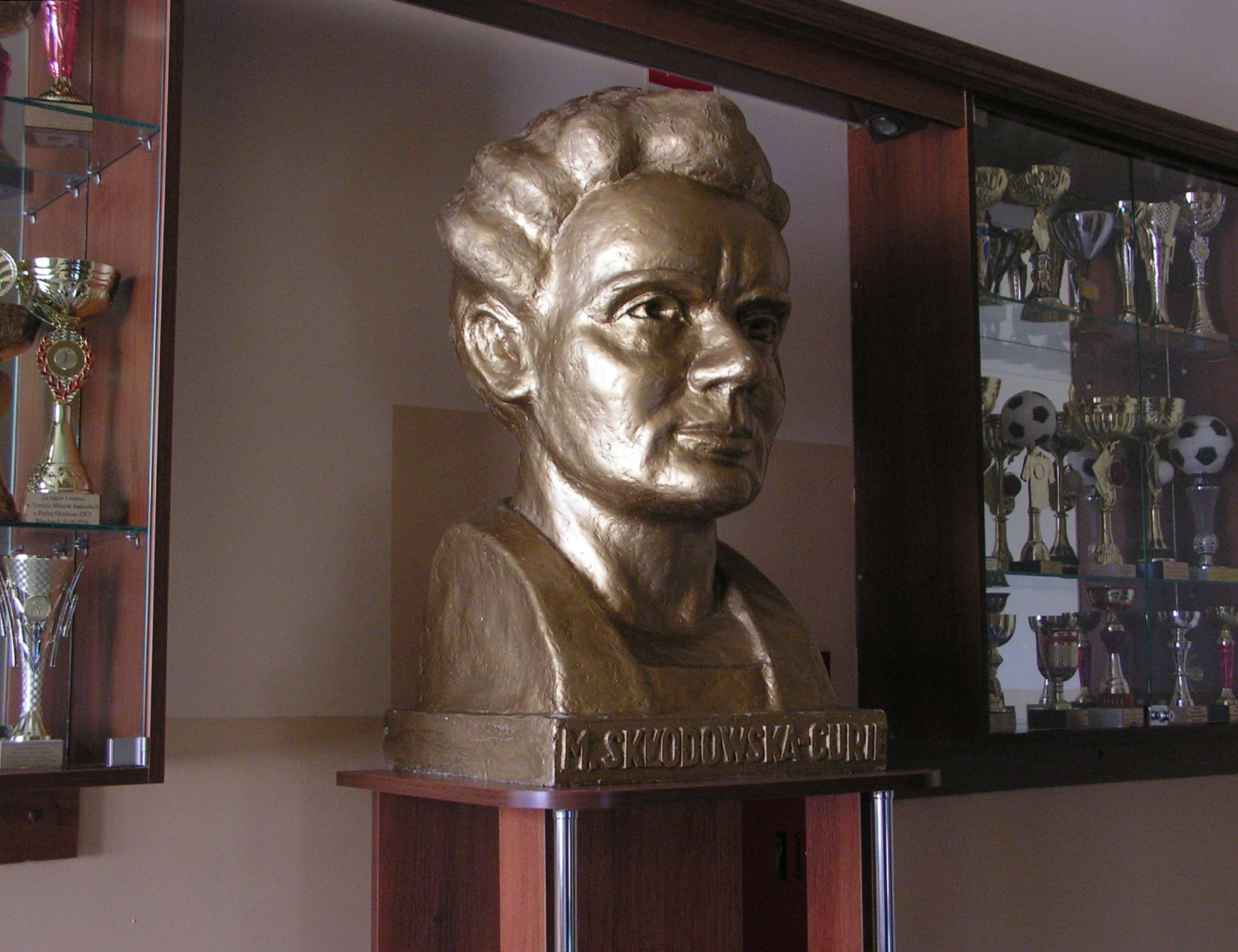 Bust of Maria Skłodowska-Curie in main hall of Chemical Schools Complex in Włocławek, named of her. Monument was made by Mieczysław Reder.